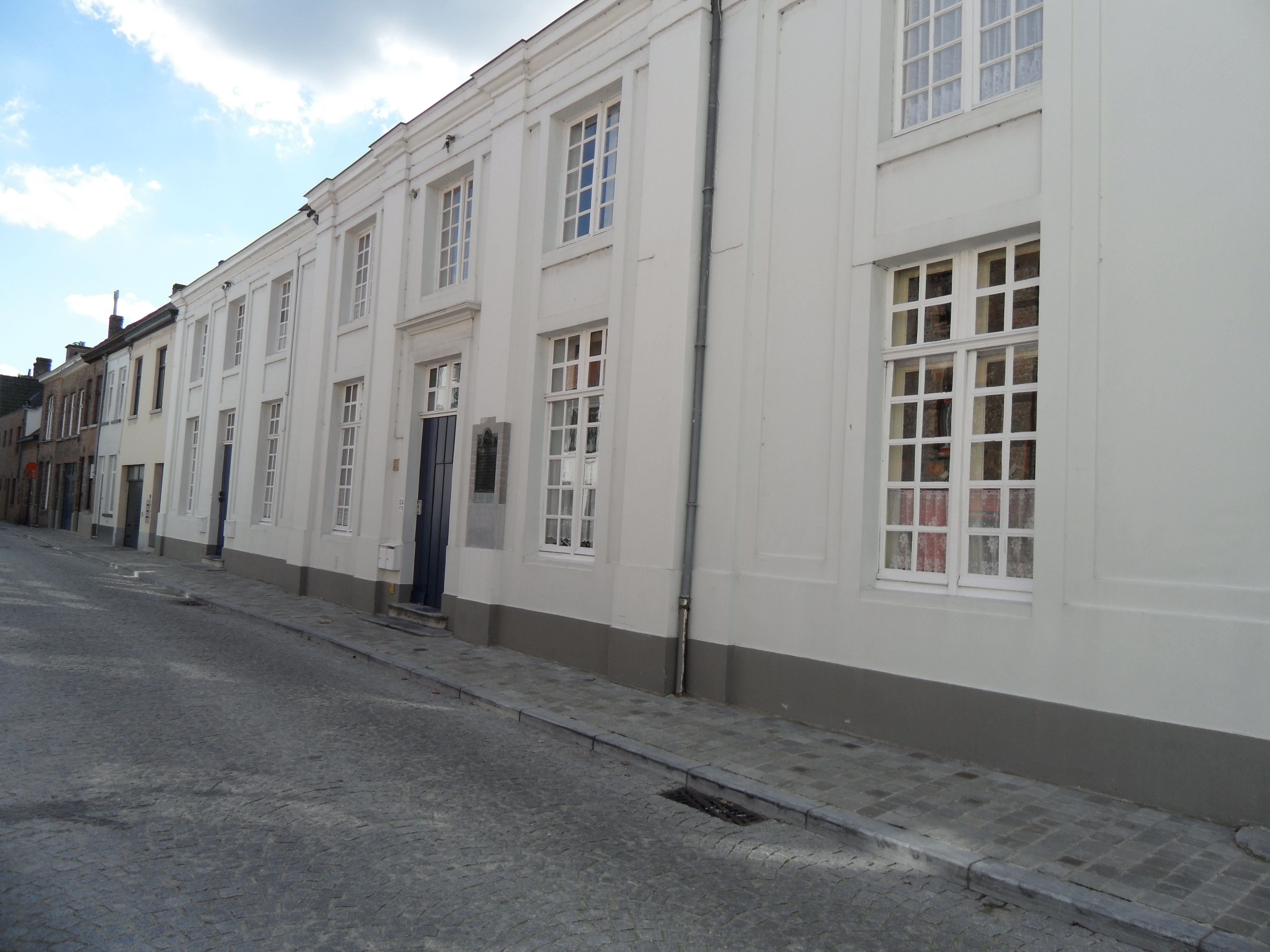 Bakkersrente in Bruges